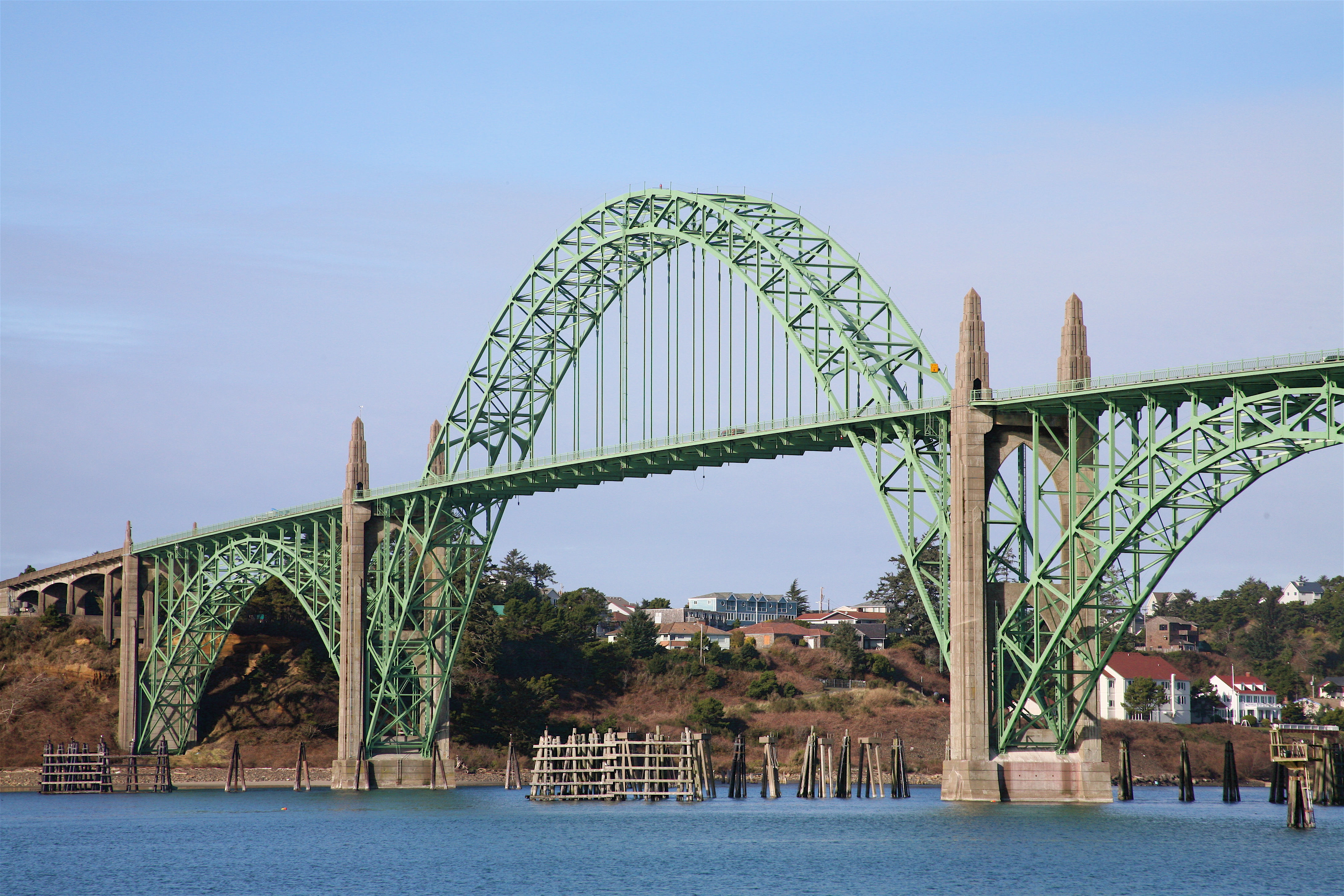 The main span of the Yaquina Bay Bridge in Newport, Oregon.